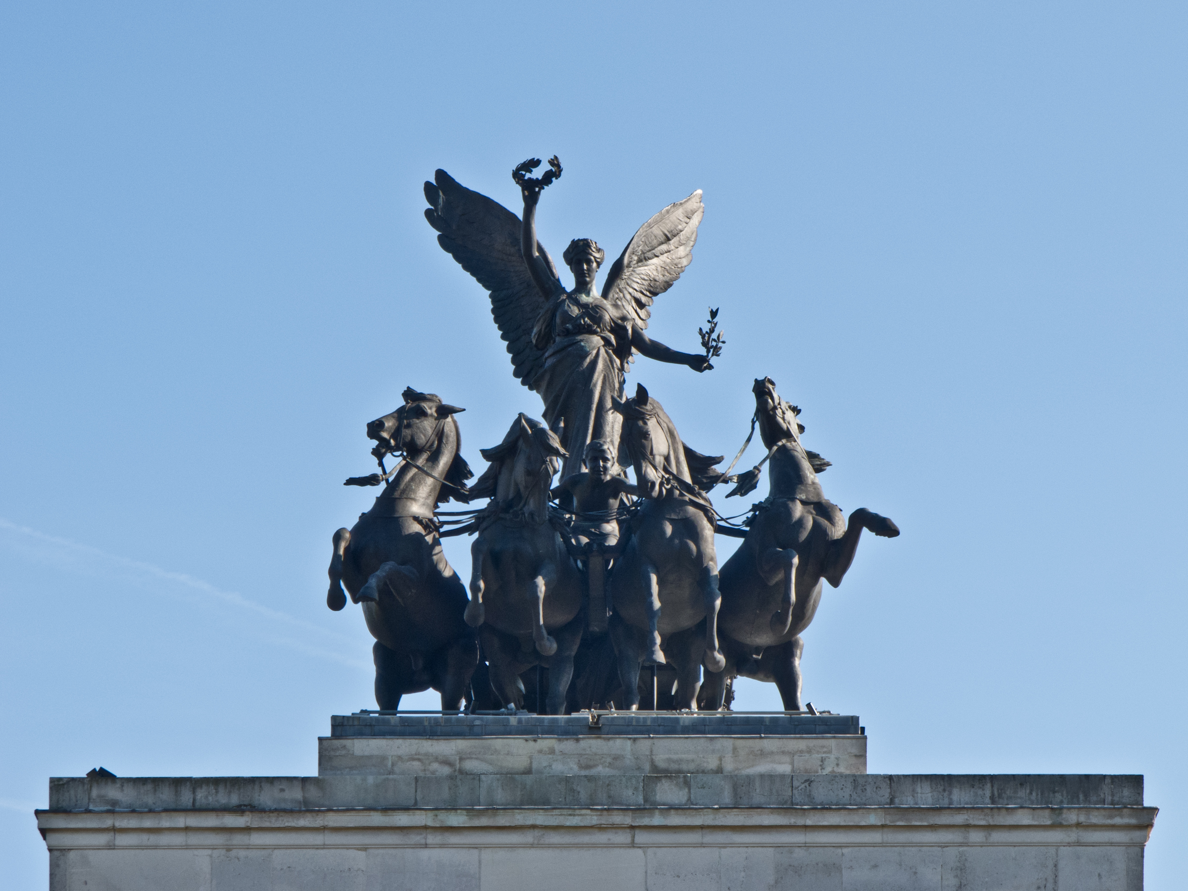 Bronze quadriga on Wellington Arch, London, England.